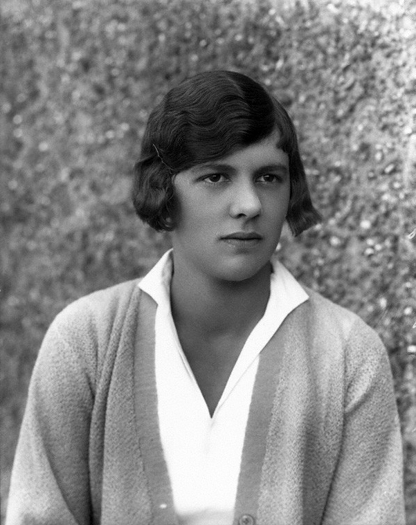 English tennis player Joan Fry by Bassano, whole-plate glass negative, 21 May 1929